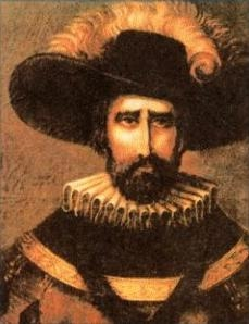 Nicolás de Ovando y Cáceres portrait